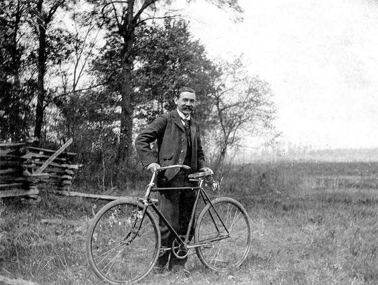 On verso of image: John N. Cobb. Hatteras, N.C. 1898 Subjects (LCSH): Cobb, John N. (John Nathan), 1868-1930; Bicycles and bicyling